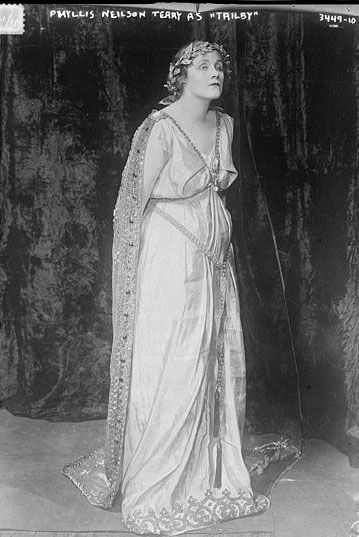 Phyllis Neilson–Terry in 1915 as Trilby. Phyllis Neilson–Terry as "Trilby" (LOC) Bain News Service,, publisher. Phyllis Neilson–Terry as "Trilby" [between ca. 1910 and ca. 1915] 1 negative : glass ; 5 x 7 in. or smaller. Notes: Title from unverified data provided by the Bain News Service on the negatives or caption cards. Forms part of: George Grantham Bain Collection (Library of Congress). Format: Glass negatives. Repository: Library of Congress, Prints and Photographs Division, Washington, D.C. 20540 USA, General information about the Bain Collection is available at Higher resolution image is available (Persistent URL): Call Number: LC-B2- 3449-10